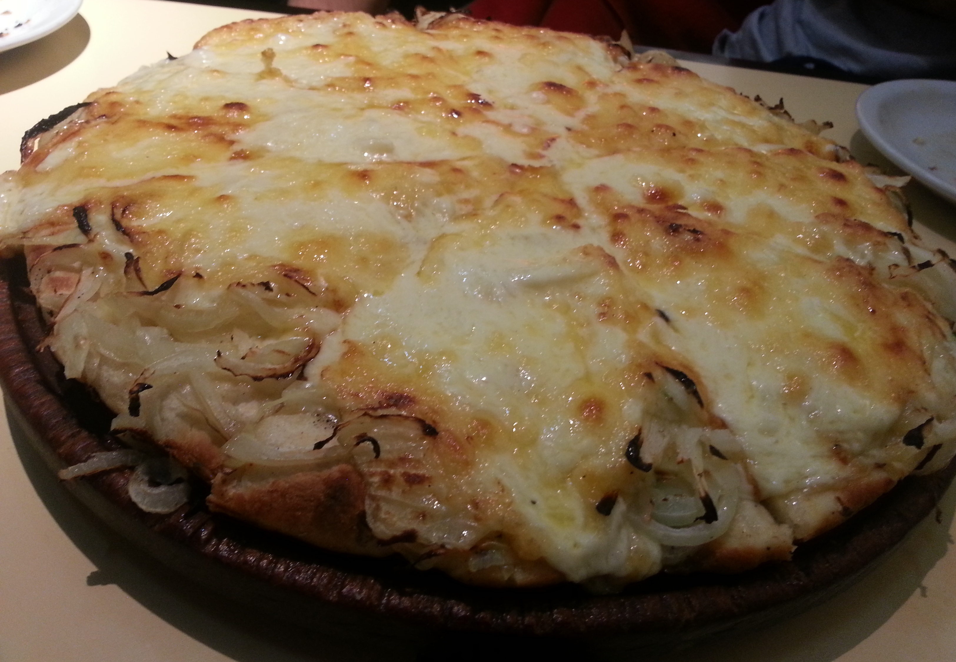 Pizza de fugazza con queso de Güerrin.